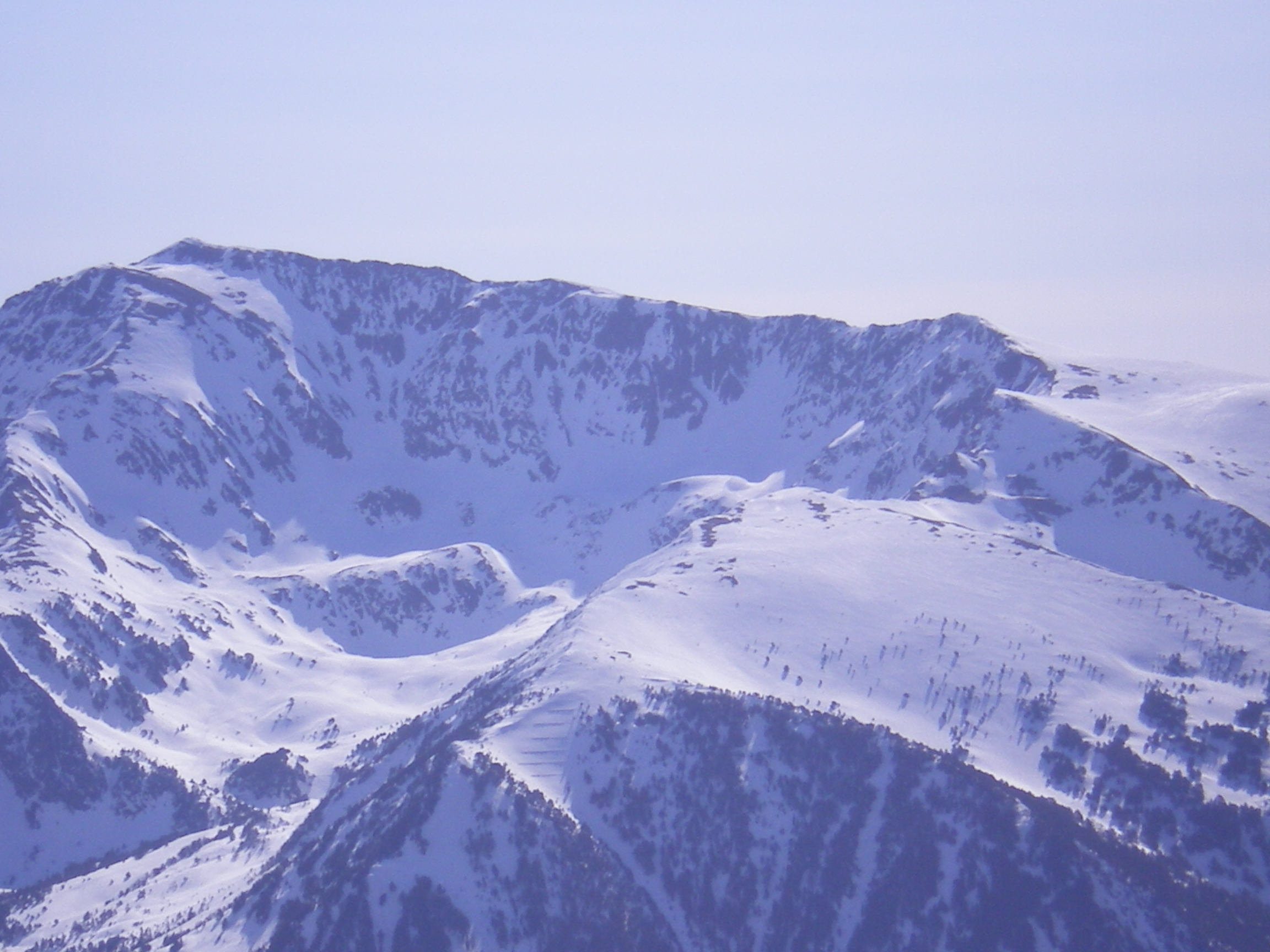 Pic de l'Estanyó. Andorra.